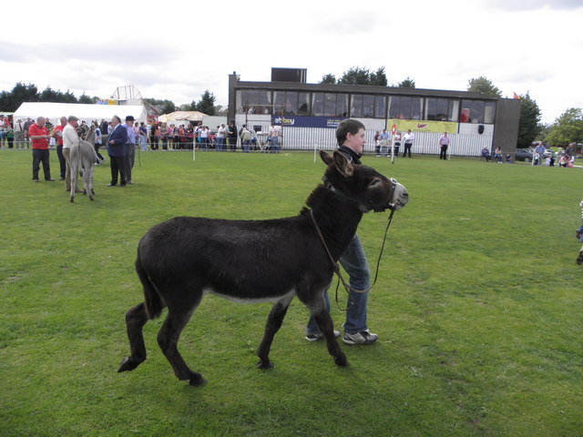 Pollock Park Lurgan The day of the donkey derby,the home of Lurgan rugby and cricket clubs